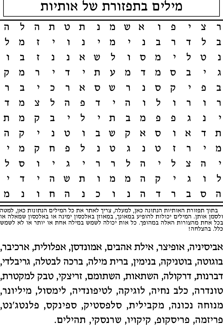 Word search in hebrew